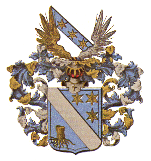 Coat of arms of the Ehrnrooth noble family